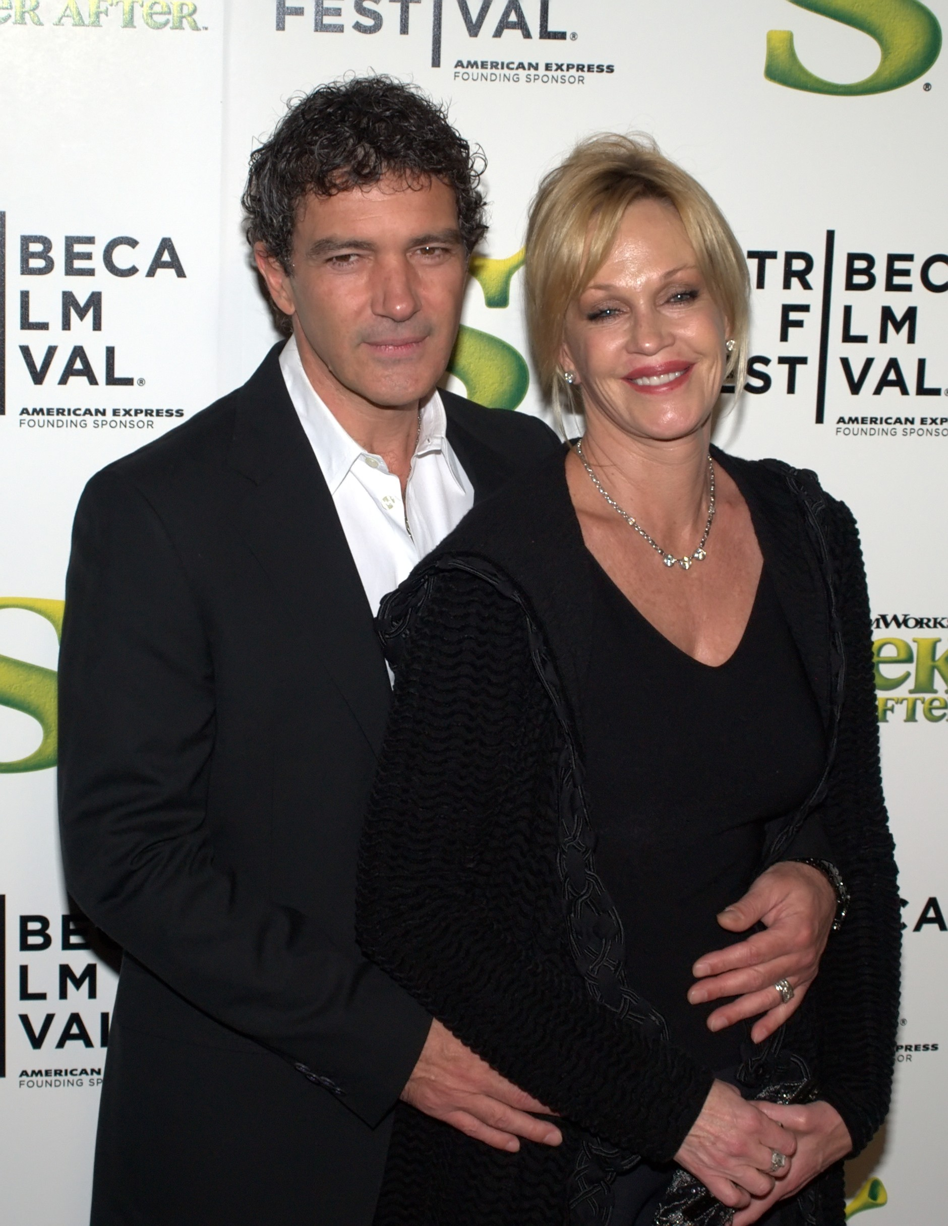 Antonio Banderas and Melanie Griffith at the Shrek Forever After premiere at the 2010 Tribeca Film Festival.